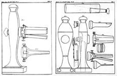 Drawings of Bozzini's Lichtleiter (Gr.light guiding instrument), earliest description of endoscopy. (i have combined Bozzini2.jpg and Bozzini1.jpg ) From [1]